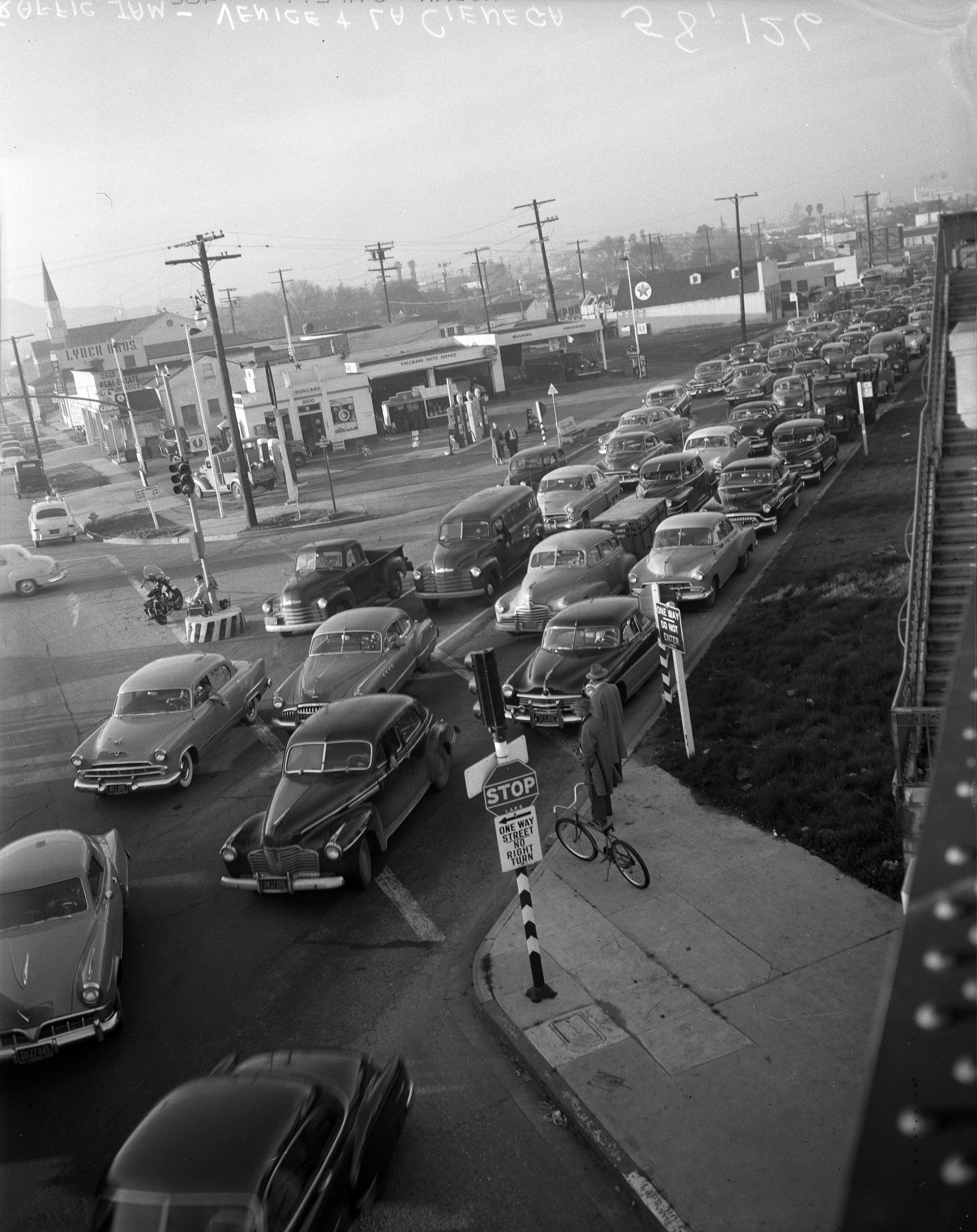 Traffic jam at Venice Boulevard and La Cienega Boulevard in Los Angeles, Calif., 1953